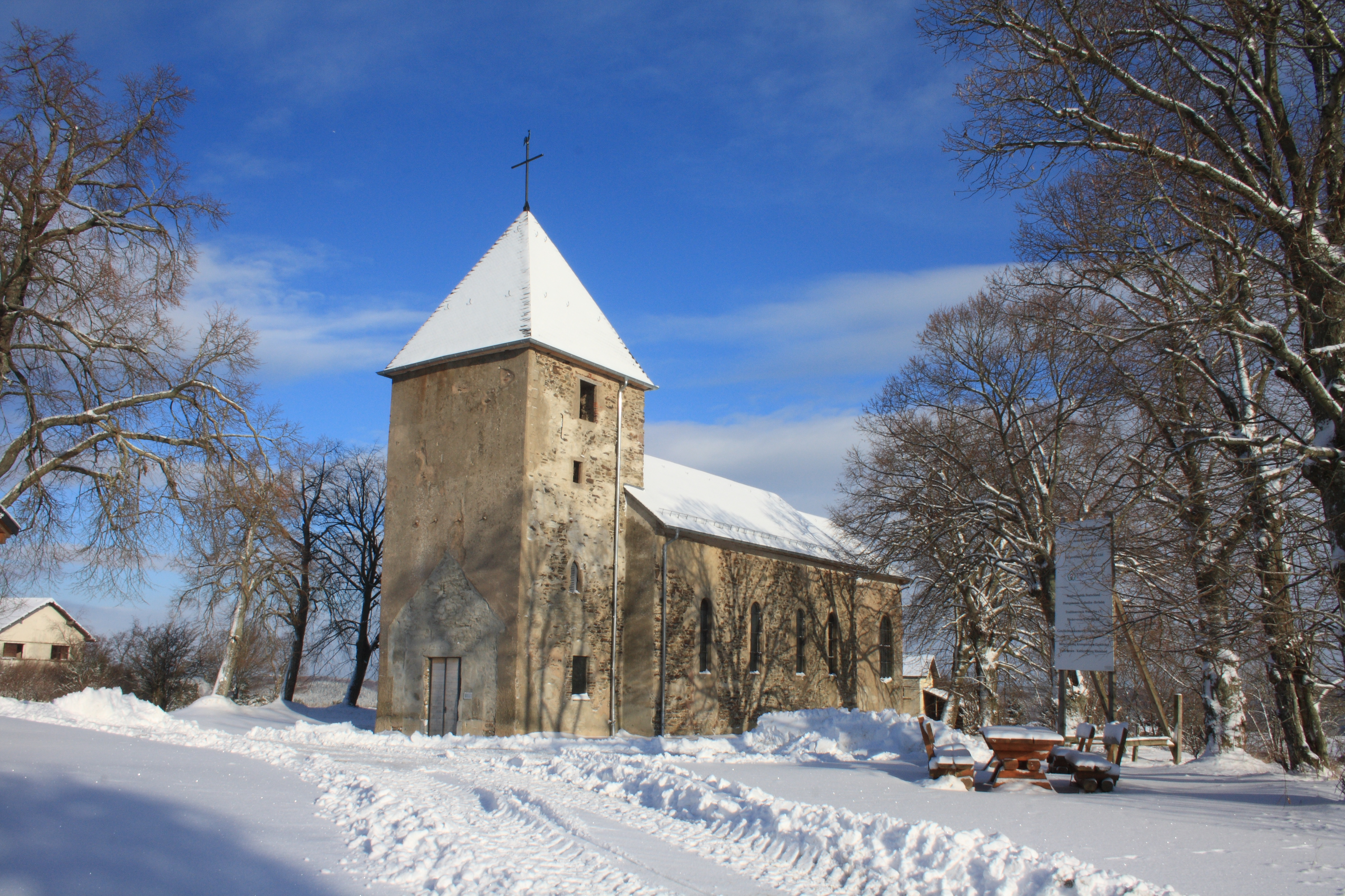 The church of ghost town Wollseifen in deep snow.